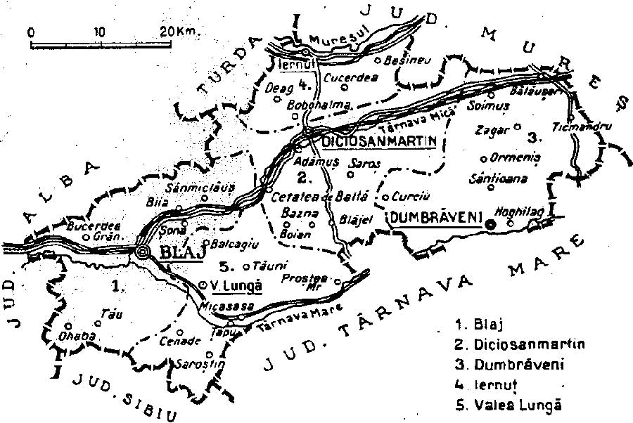 Map of Târnava Mică interwar county, Kingdom of Romania (1938).